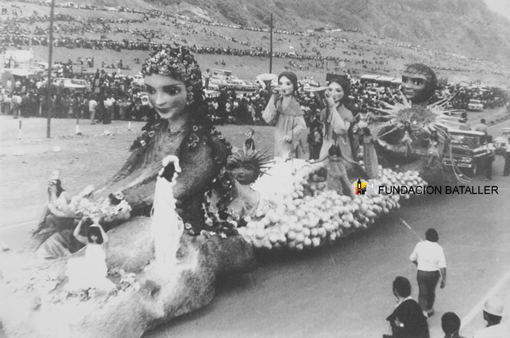 Official carriage of the Fiesta del Sol in 1973 (current National Sun Festival), developed in the province of San Juan, Argentina.